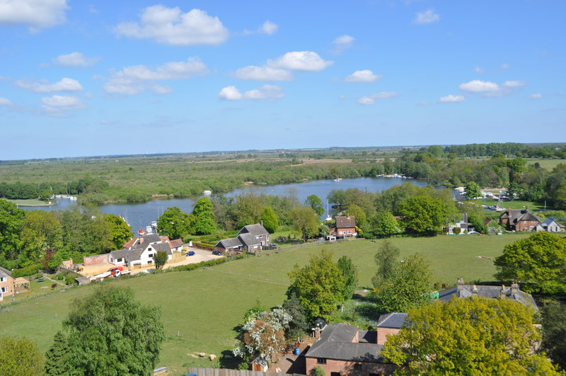 Malthouse Broad from Ranworth Church Tower, near to Ranworth, Norfolk, Great Britain. The village of Ranworth is just a scattering of houses.